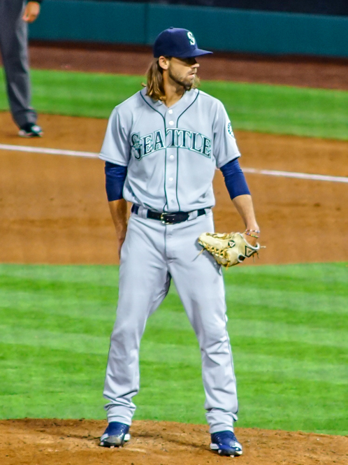 Tayler Scott of the Seattle Mariners prepares to deliver a pitch during a 2019 game at Angel Stadium